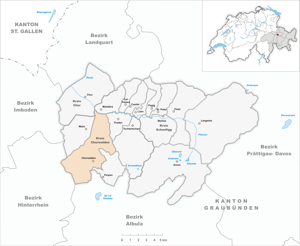 Municipality Churwalden